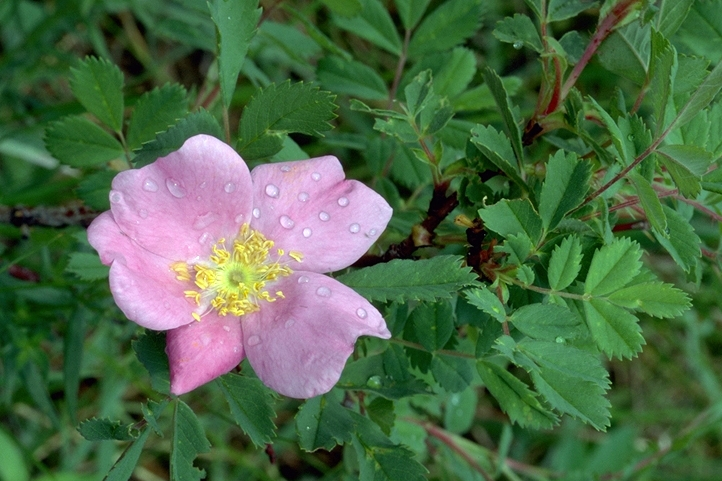 Beautiful, fragrant Wild Roses bloom June-August from the Plains to the Subalpine. Look for them in sunny, open, dry areas. NPS photo